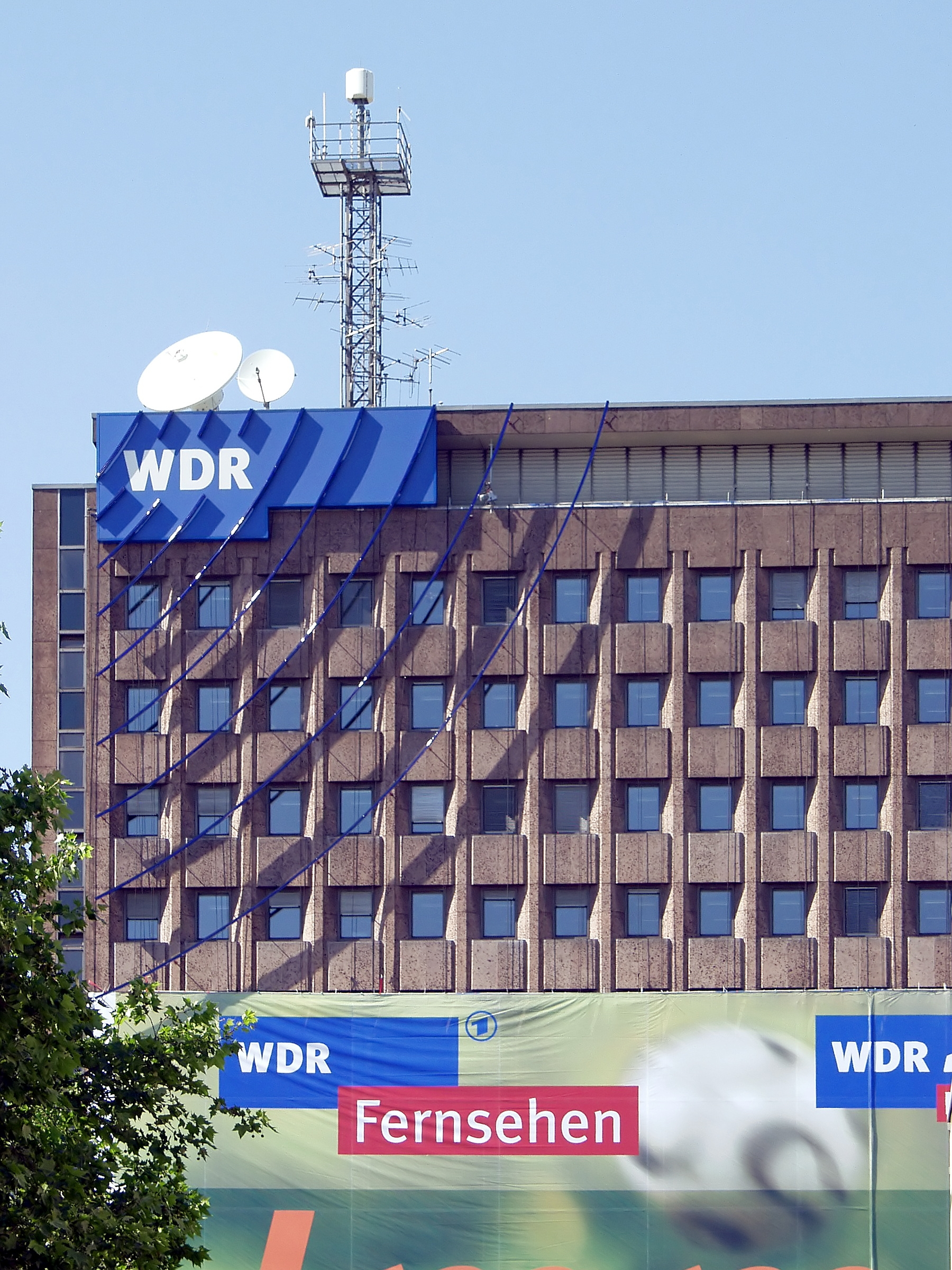 WDR-studio Cologne, Germany